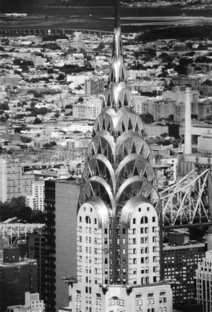 Chrysler Building: From the Empire State Building